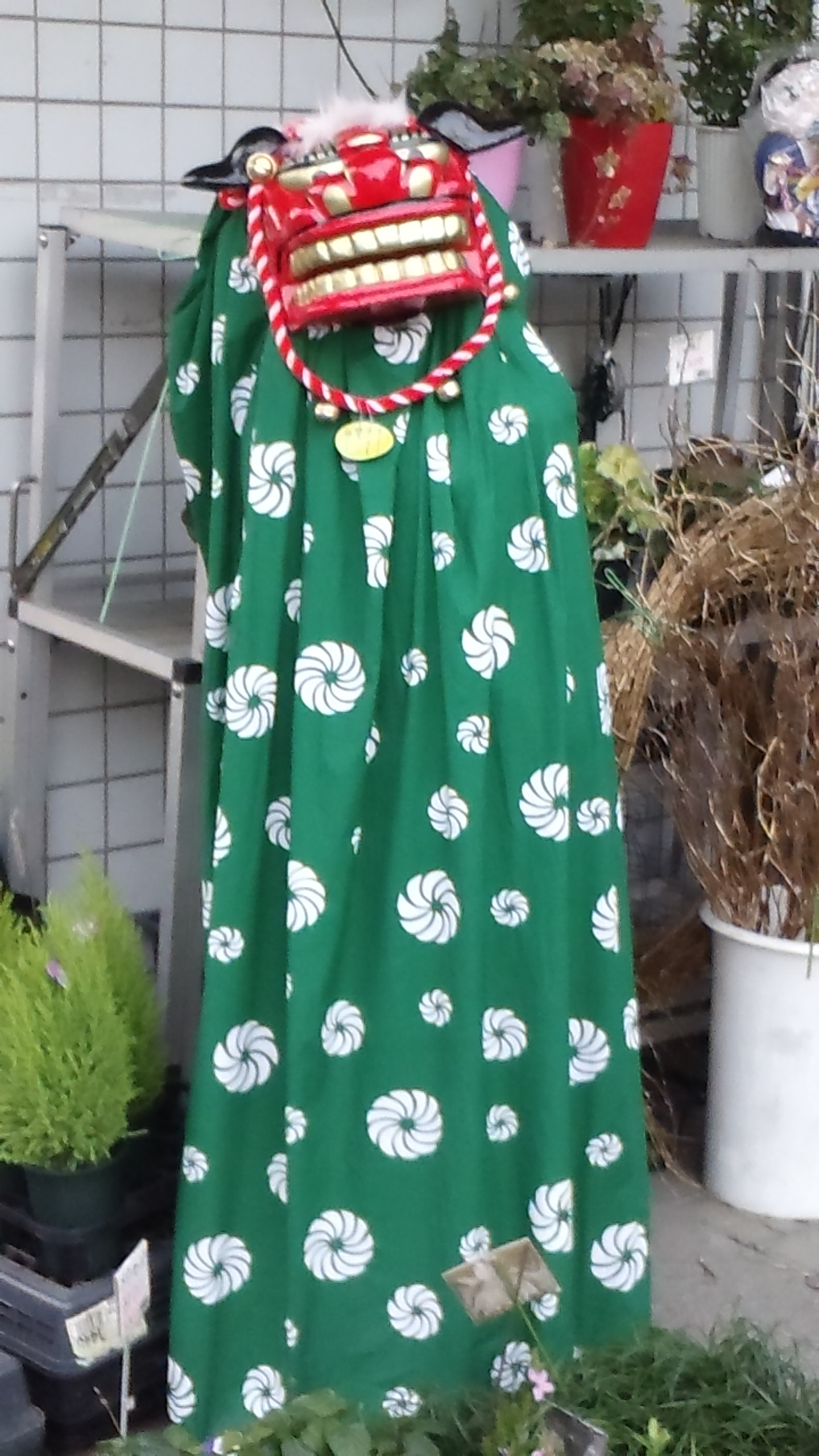 Japanese Lion dance